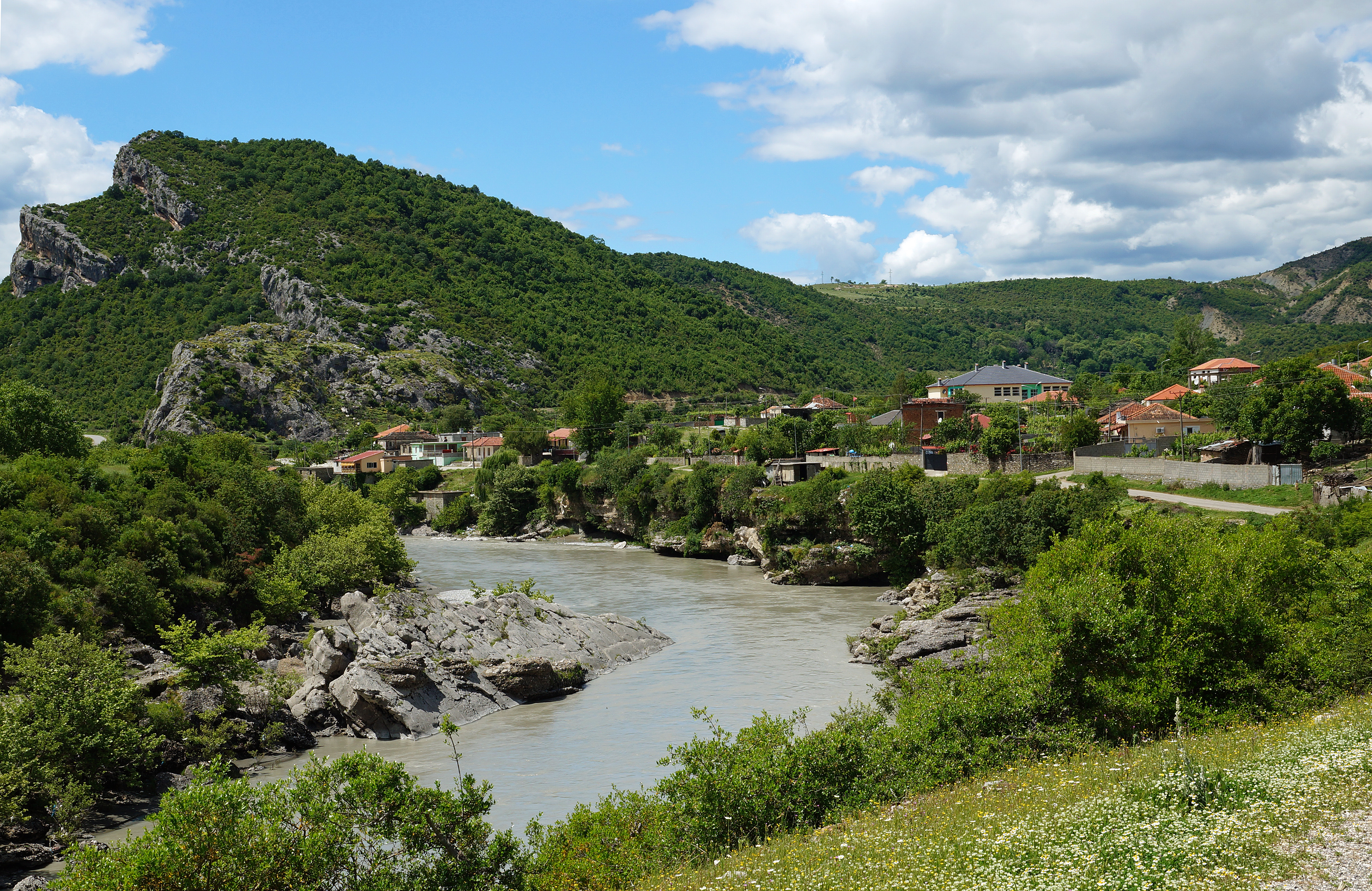 Village of Petran in South Albania